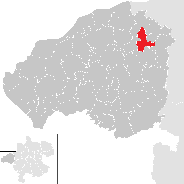 district Braunau am Inn